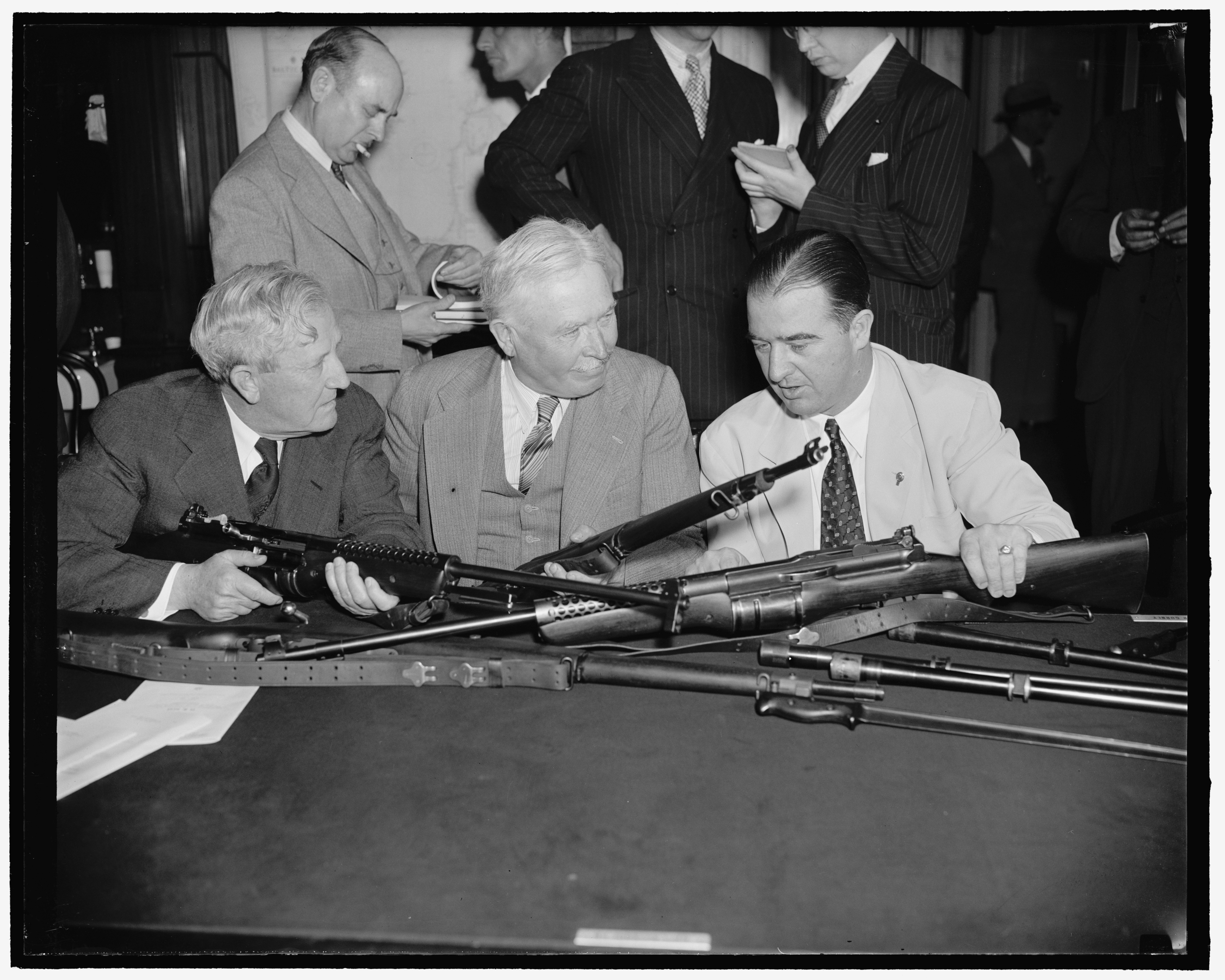 Washington, D.C., May 29. Senator Morris Sheppard, left, Chairman of the Senate Military Affairs Committee, Maj. Gen. George A. Lynch, U.S. Chief of Infantry, and Senator A.B. Chandler of Kentucky, inspect the Johnson semi-automatic rifle which may replace the Garand gas-operated rifle as the Army's standard shoulder weapon. Capt. Melvin M. Johnson, inventor of the Johnson rifle, told the Senate Military Affairs today when it began consideration of a bill to change the Army's standard shoulder weapon, that his rifle could be manufactured more rapidly than the Garand.